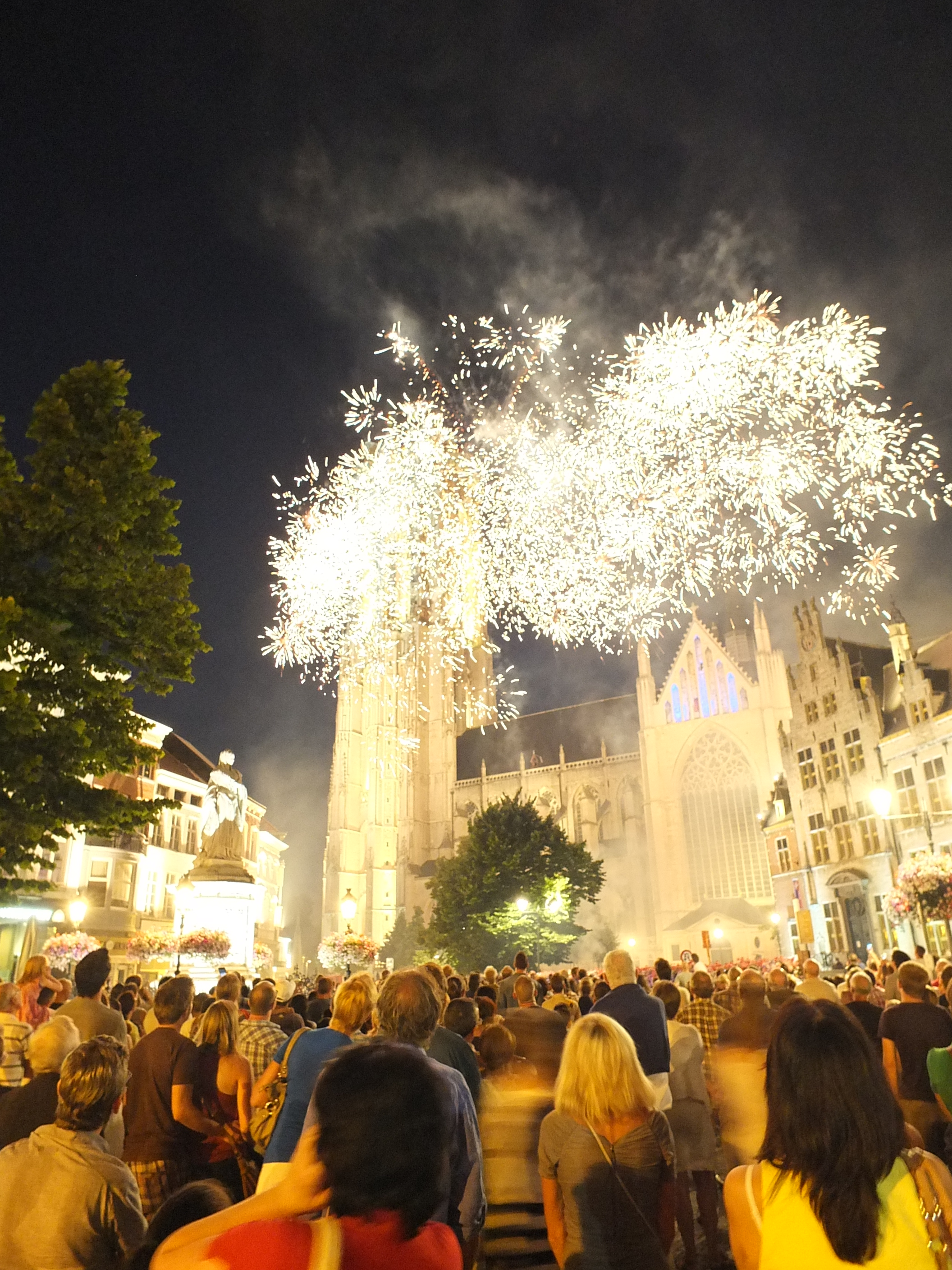 Fireworks on the 21st of July 2013 in Mechelen near St-Rumbold's Cathedral. In the left hand corner the Statue of Margaret of Austria, Duchess of Savoy can be seen.